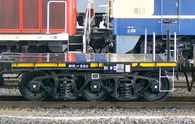 The bogie of JR freight Shiki 550 Schnabel car Shiki 559 in Japan